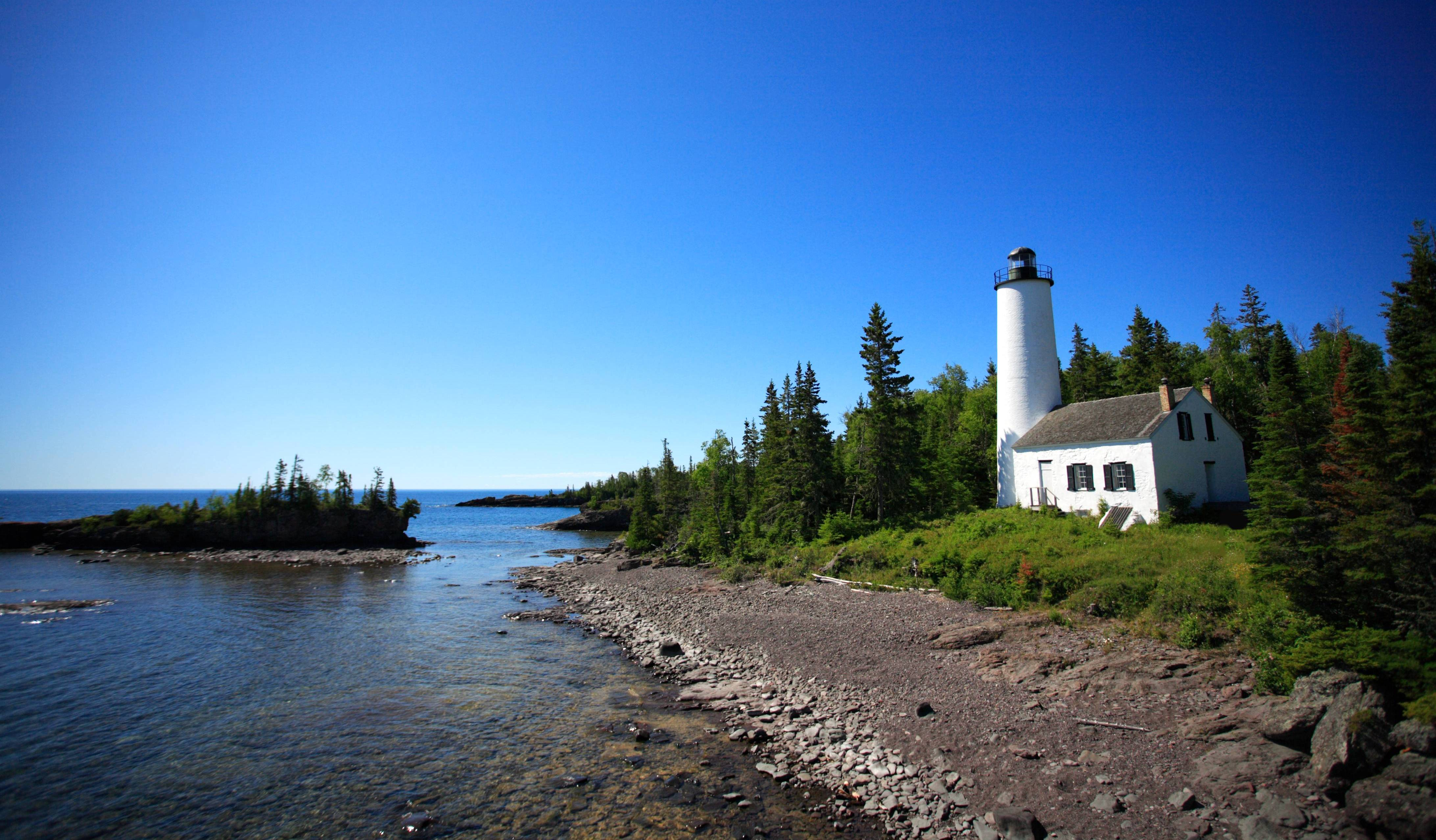 Rock Harbor Lighthouse at Isle Royale National park